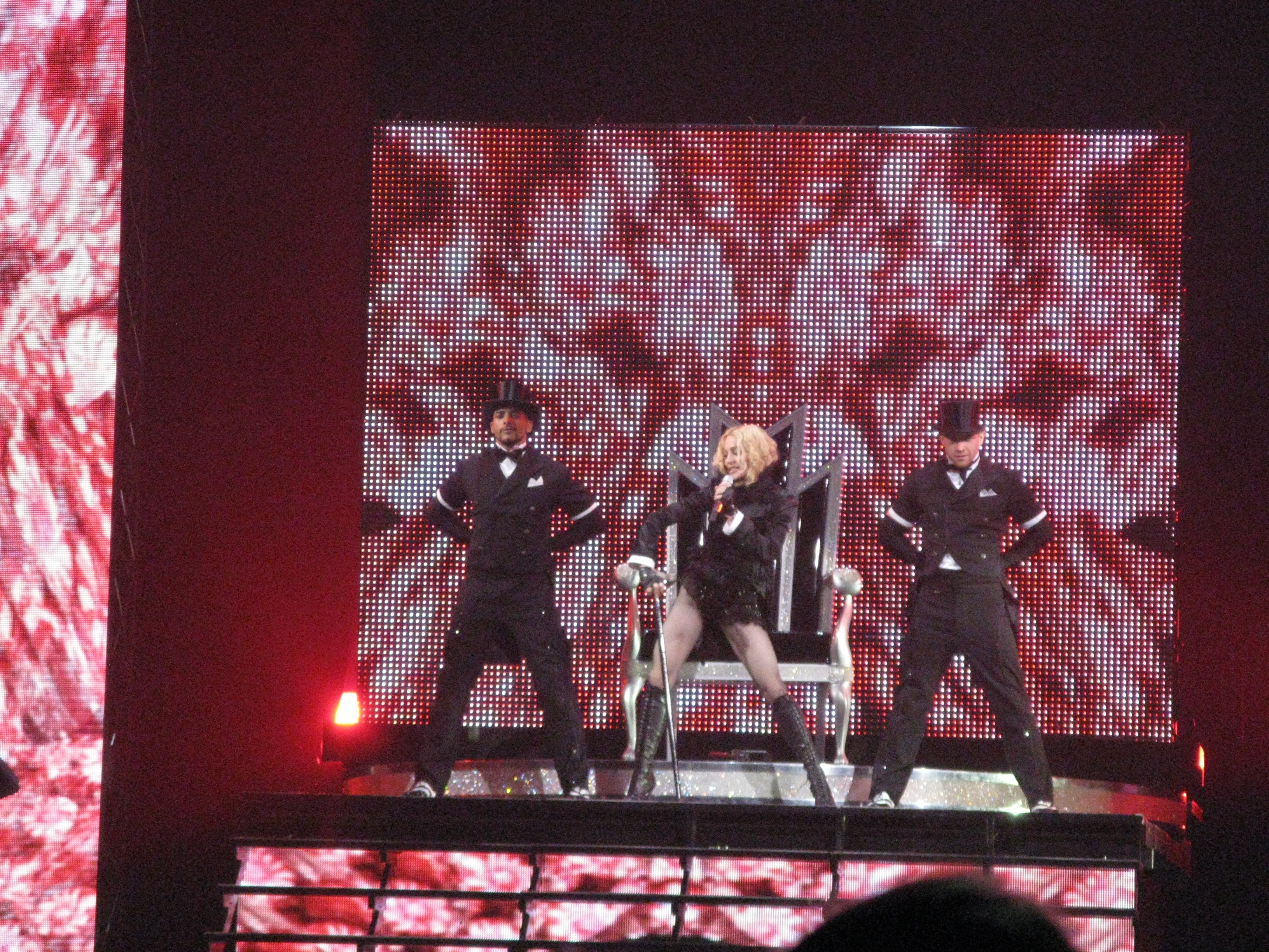 Madonna at Madison Square Garden